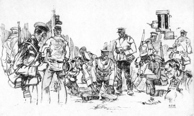 Chinese Republic soldiers started to sharpen bayonets and knives, angered by their mutilated Colonel killed near Nanking, 1911, ink drawing by Arman Manookian, Honolulu Academy of Arts